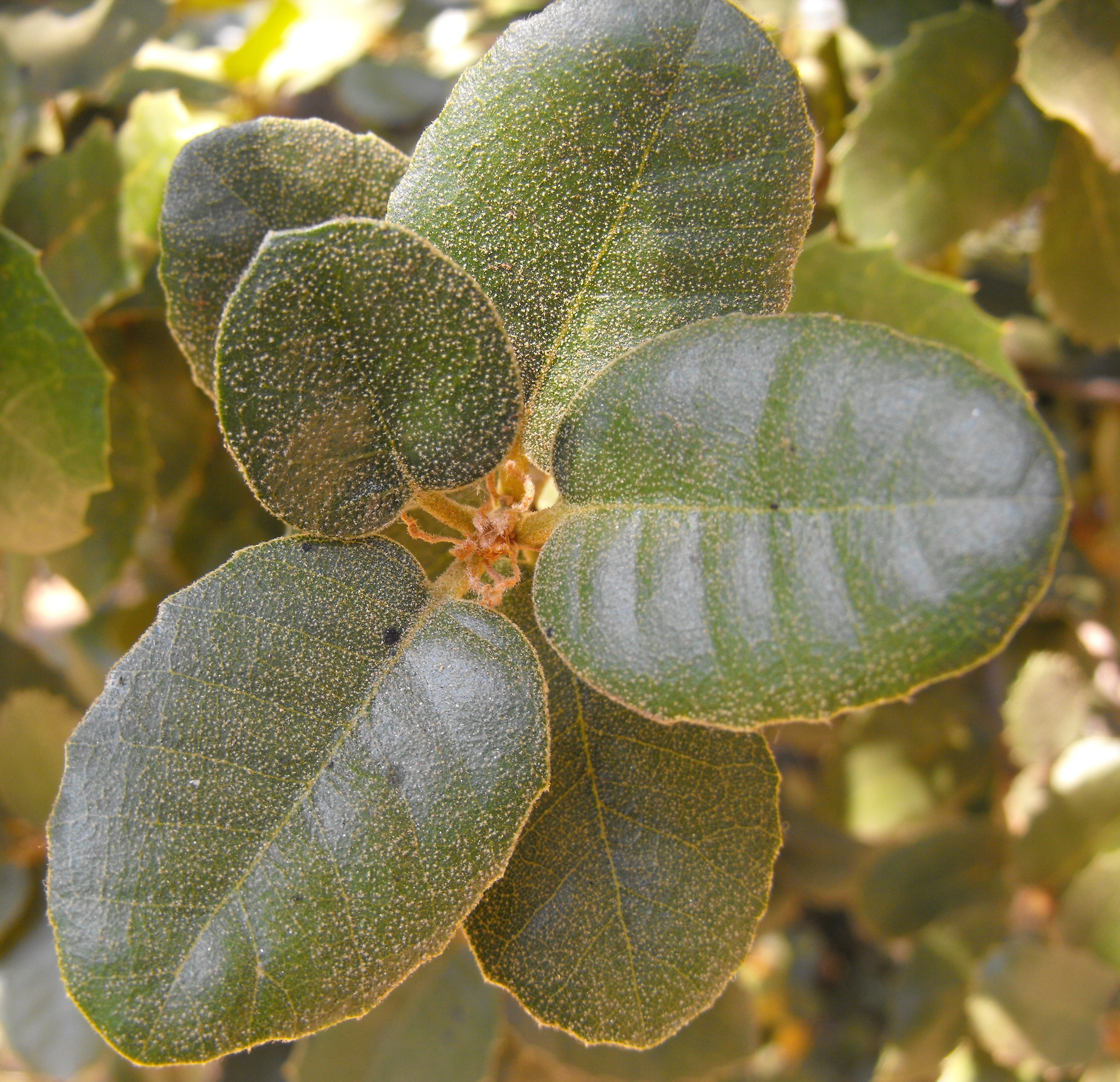 Quercus tomentella — Island oak, foliage close up. In the native plant gardens at the San Diego Zoo Safari Park, Escondido, California. Native and endemic to the Channel Islands of California.